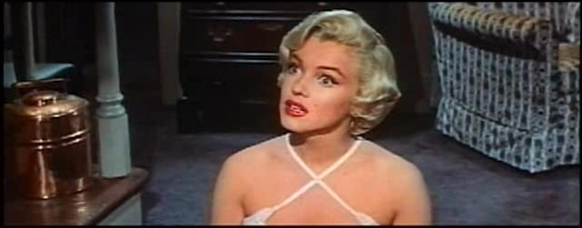 Marilyn Monroe listening in the theatrical trailer of the 1955 film The Seven Year Itch directed by Billy Wilder.